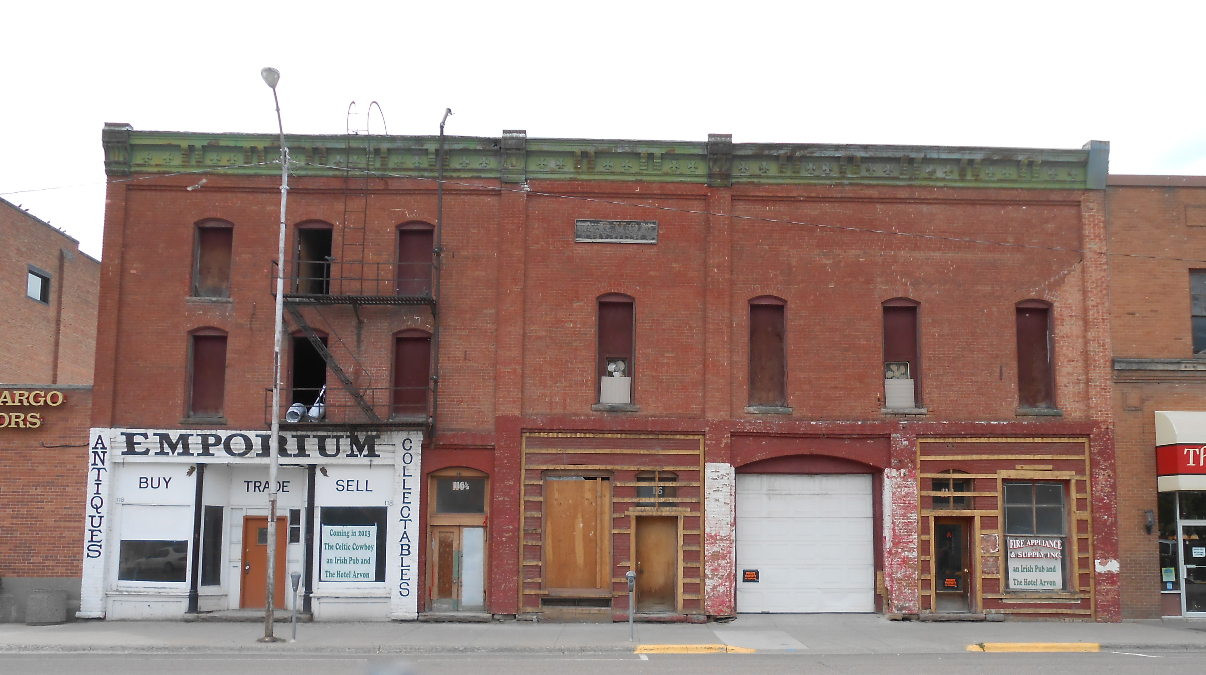 Buildings on the 100 block, First Ave. S., Great Falls, MT, includes The Arvon Block, 114-116 First Avenue South